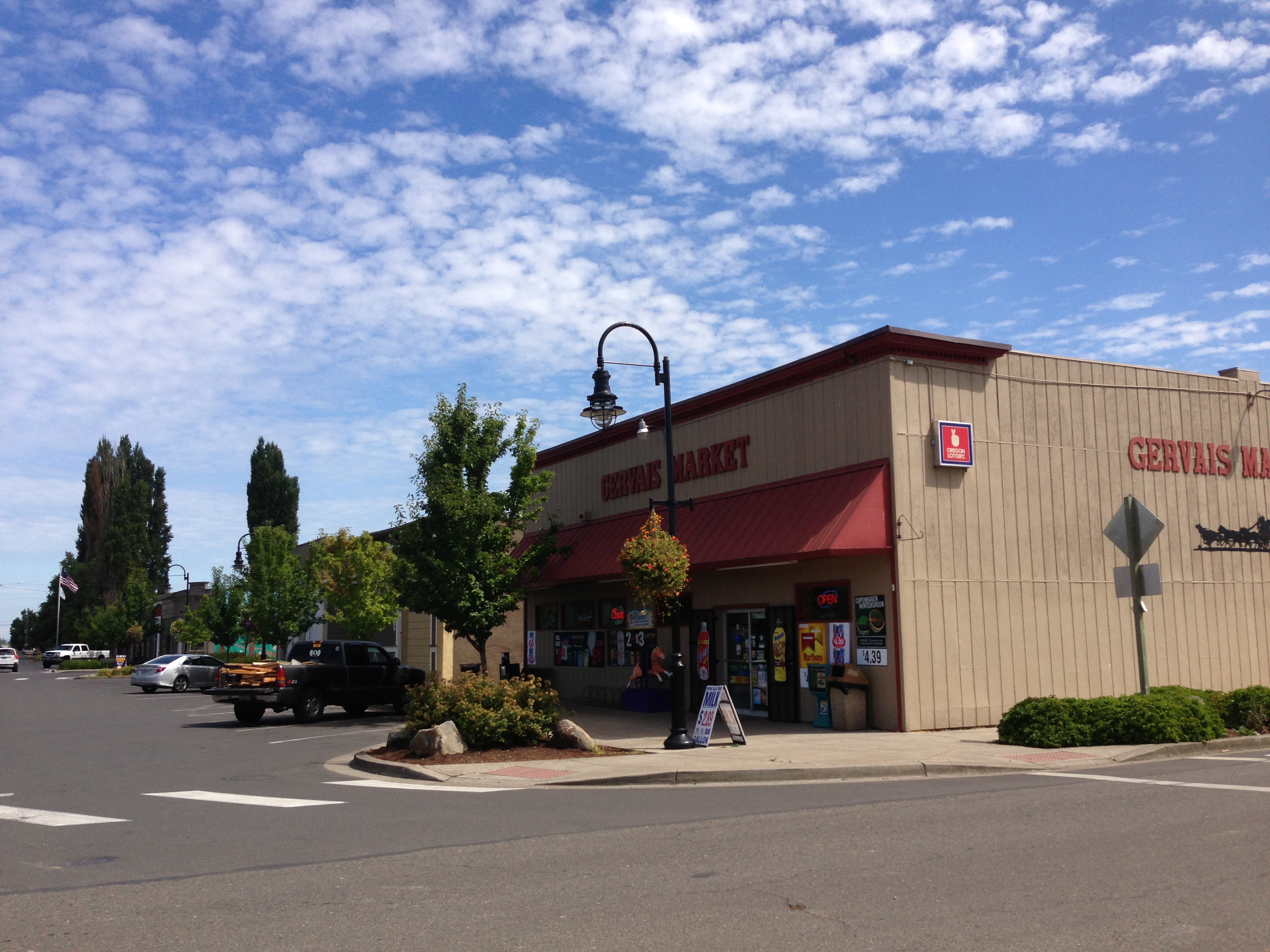 "Downtown" Gervais, including Gervais Market.